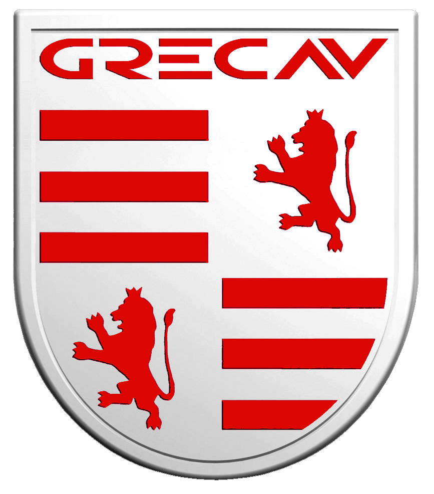 Grecav logo